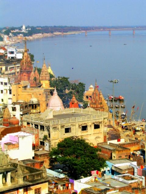 Temples on the bank of Ganges, Varanasi.